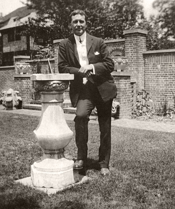 John McCrae leaning against a sundial